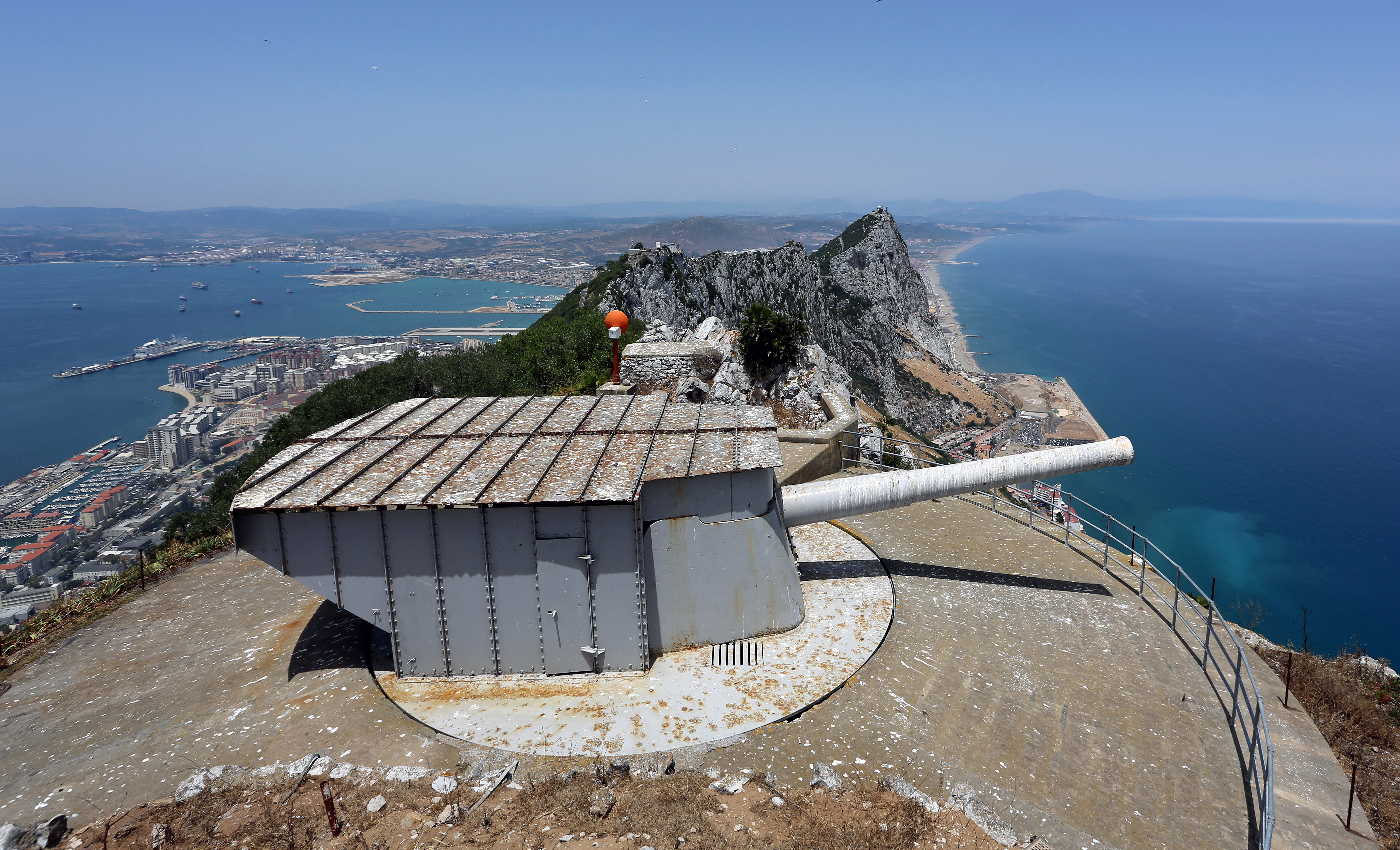 Breakneck Battery - Photo taken with kind permission of Fortess HQ, Gibraltar. Breakneck Battery is on Ministry of Defence property near Lord Airey's and O'Hara's Batteries. The name "Breakneck" was inspired by the nearby Breakneck Stairs which descend part way down the sheer cliff on which the battery stands, overlooking the Mediterranean Sea. All three Batteries are situated on the ridge of the Rock of Gibraltar with commanding views of the Mediterranean Sea, Bay and Straits of Gibraltar. Breakneck Battery has a 9.2 inch Mark X breech-loading gun installed on a Mark V mounting and is one of three surviving 9.2-inch gun emplacements at the Upper Ridge of the Rock with the others being Lord Airey's and O'Hara's Batteries.